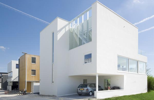 This villa is built in a prominent waterside plot in the new district of IJburg, Amsterdam by MPA (Michel Post Architecten). The client wanted a minimalistic house with a large atelier space, and lots of natural light. The atelier is located on the ground floor, and has a double height. It has a large glass facade, trough which there is an abundant supply of natural light. The living quarters are located on the top floors; though large exterior spaces make this feel like it is the ground floor. A steel staircase leads to the roof, where a giant terrace provides uninterrupted views to all sides. All floors are connected via a generous staircase and an elevator.